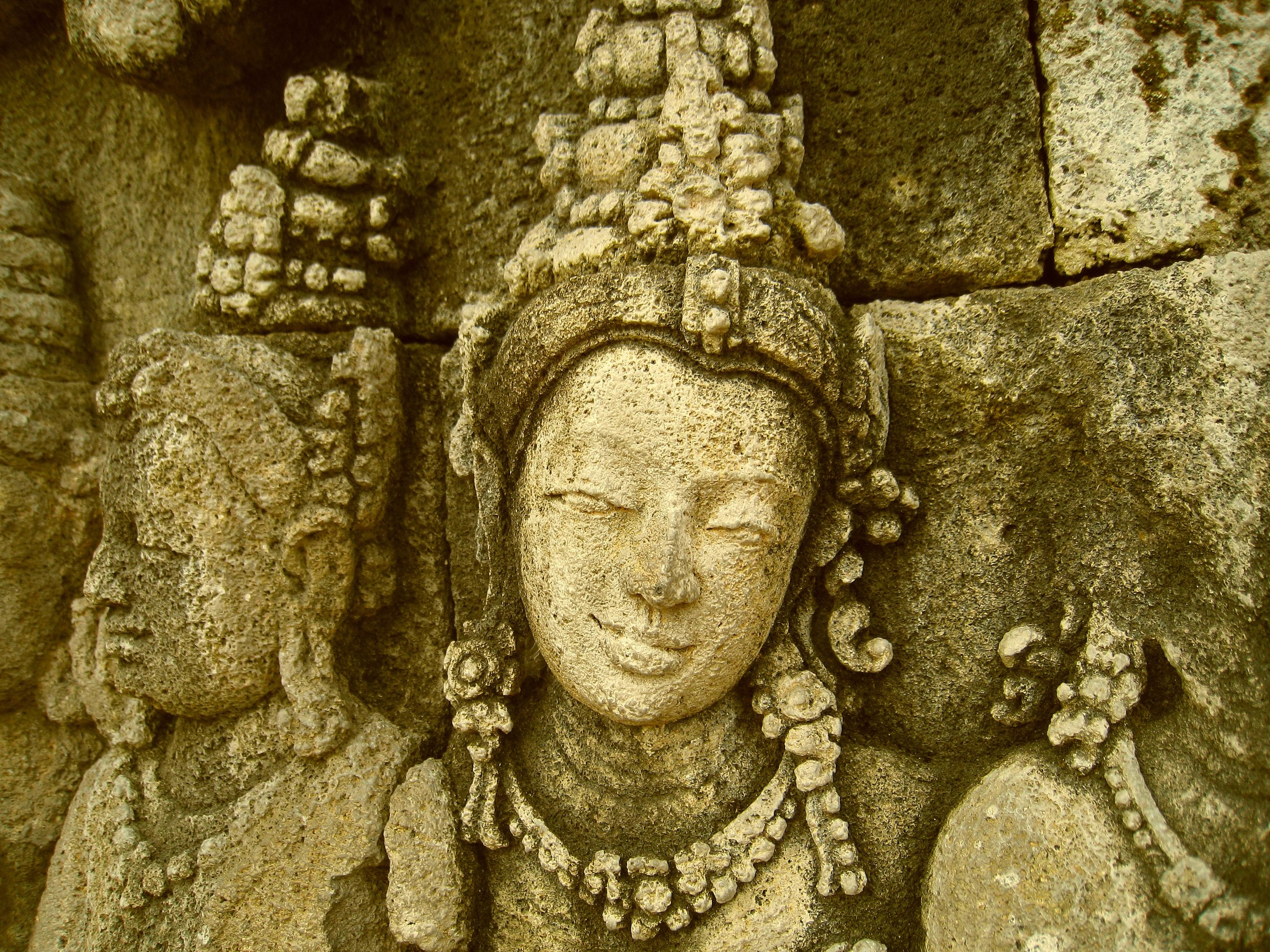 LalitavistaraDeva listening to Dhamma